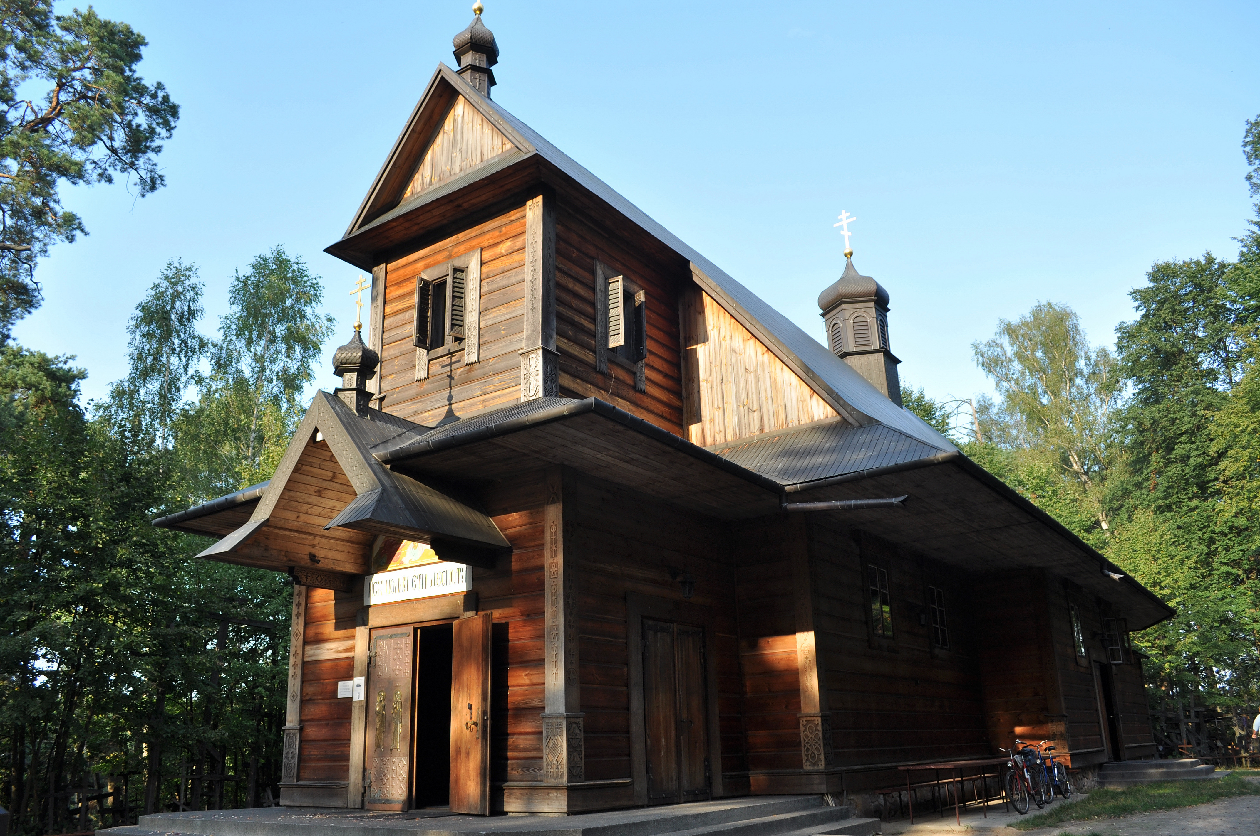 Wooden church in Grabarka